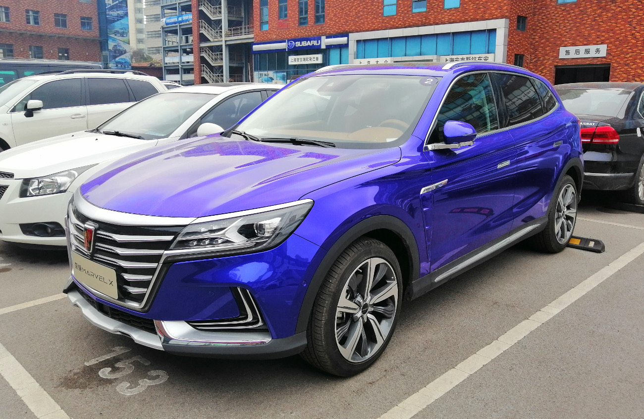 Roewe Marvel X photographed in Shanghai, China.